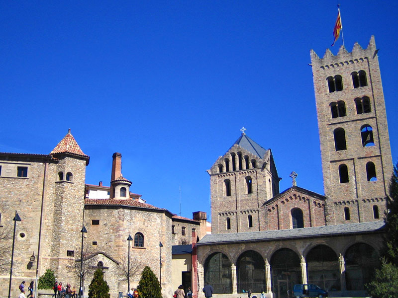 Ripoll monastery, County Ripolles, Catalonia, Spain.